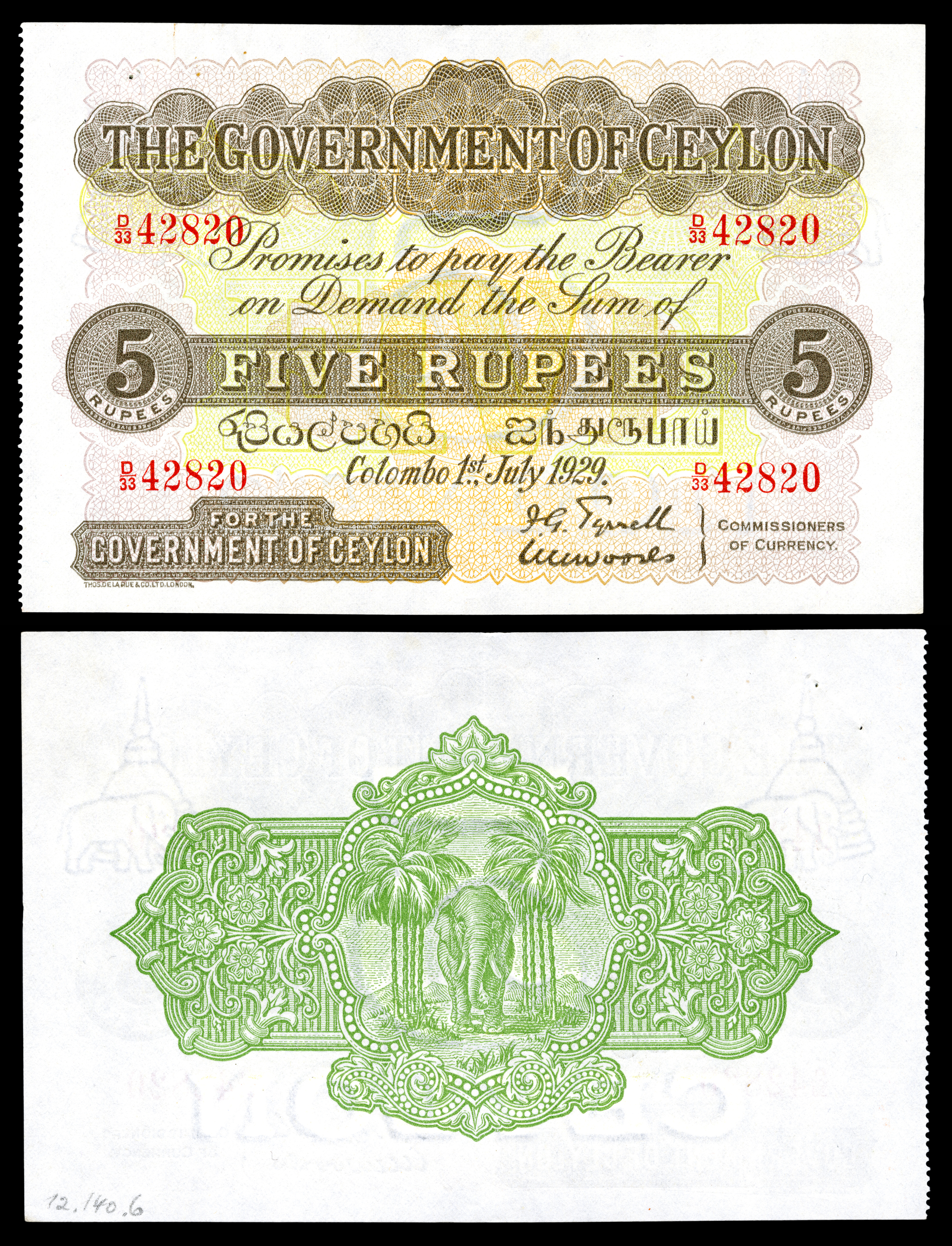 Government of Ceylon, 5 Rupees (1929)